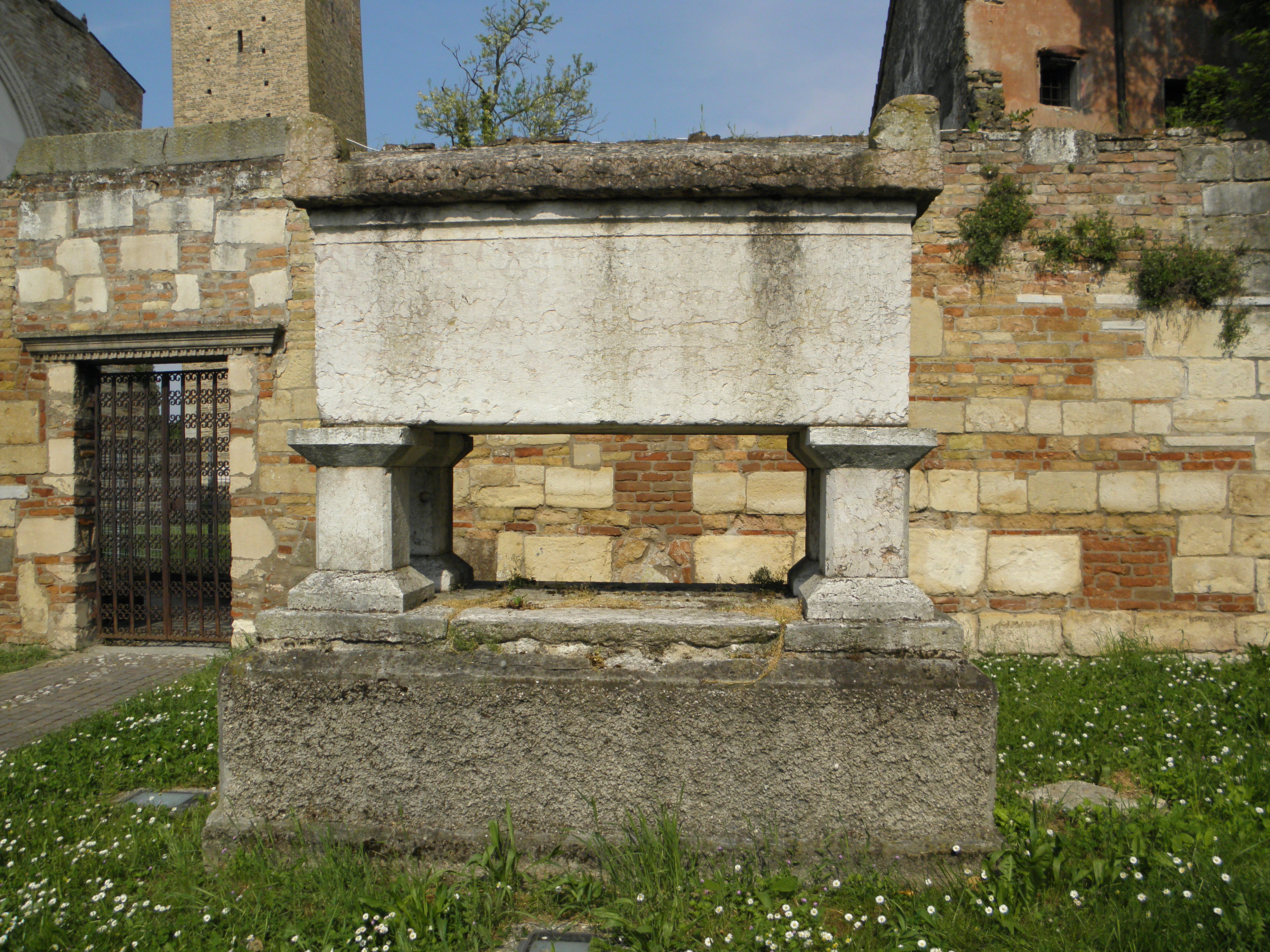 Badia Polesine, province of Rovigo: Tomb of Azzo VI of Este and his wife Alice of Chatillon in front of Vangadizza Abbey.